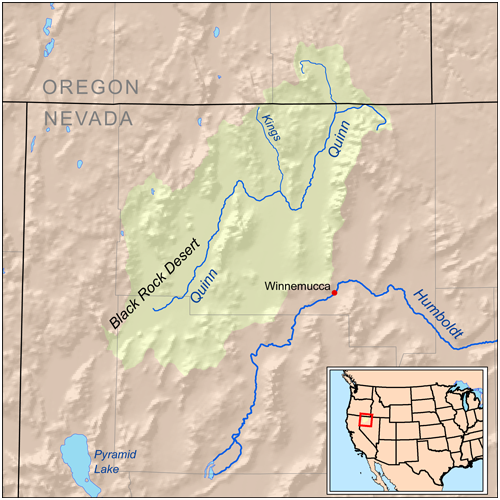 Map showing the Quinn River drainage basin — in northern Nevada and southeastern Oregon.